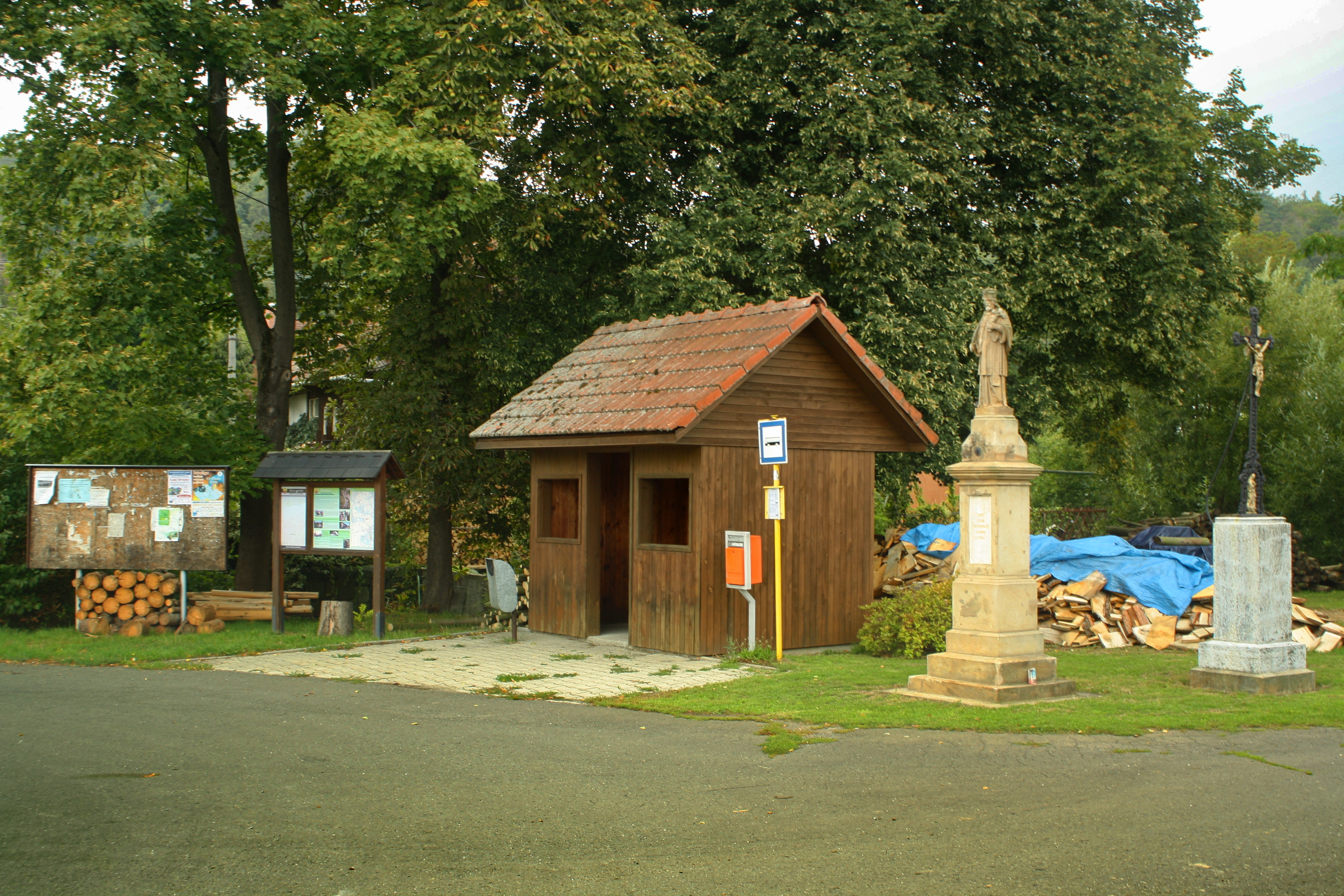 Municipality Lhotka (Hranice), Přerov District, Olomouc Region, Czechia